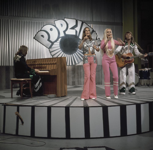 ABBA, rop/rock program 'Popzien' on Dutch television